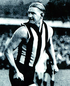 Photograph of Albert Collier from 1925-1939